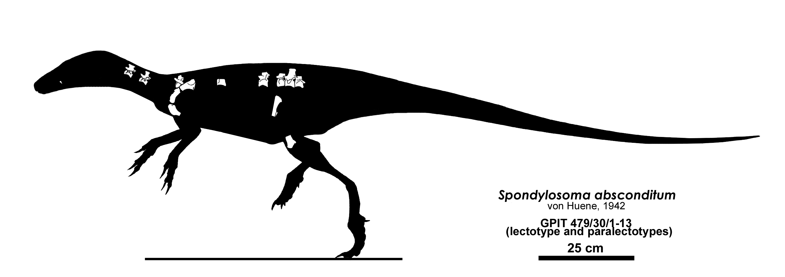 Skeletal reconstruction of Spondylosoma absconditum. Outline mostly hypothetical